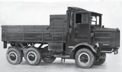 Tatra 25 6x6 wheeled artillery tractor, produced 1933-34.